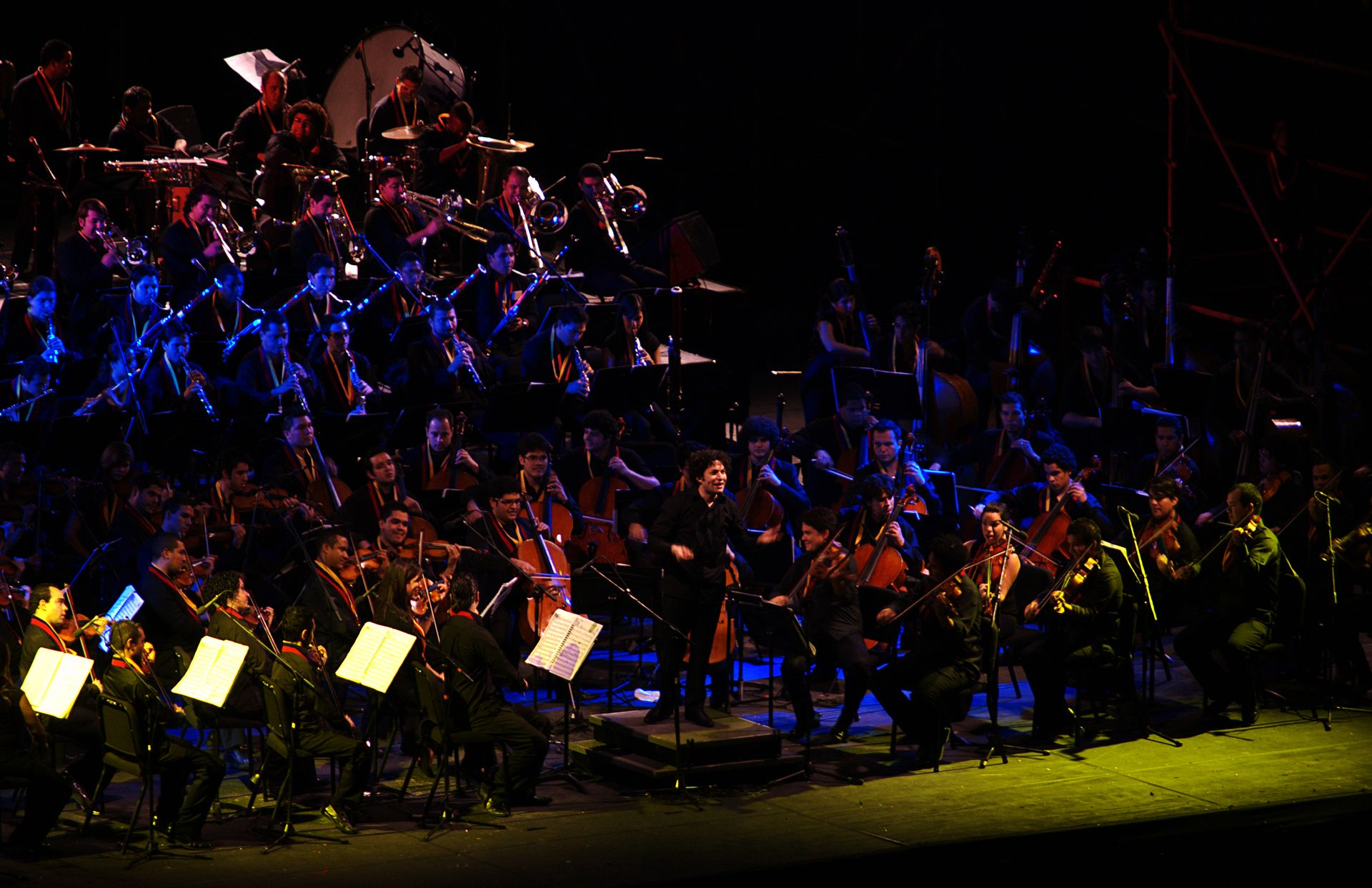 Gustavo Dudamel and the Simón Bolívar Symphony Orchestra in Metropolitan Stadium of Merida, Venezuela